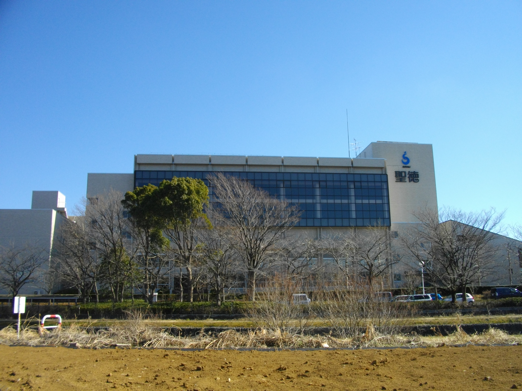 Junior & Senior Girl's High School Attached to Seitoku University